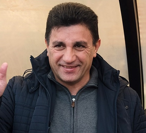 Amir Ghalenoei